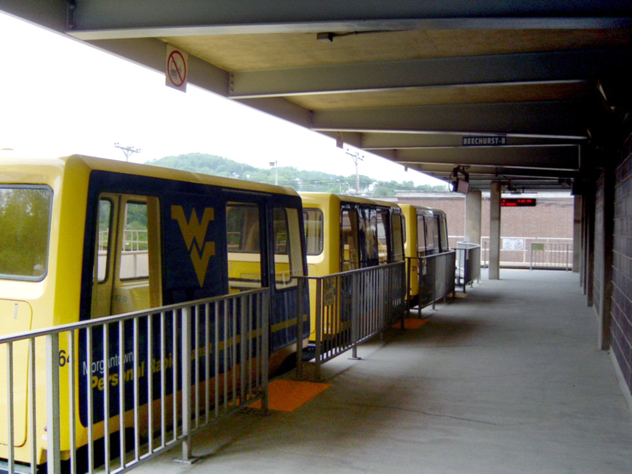 Beechurst Station of Morgantown PRT.